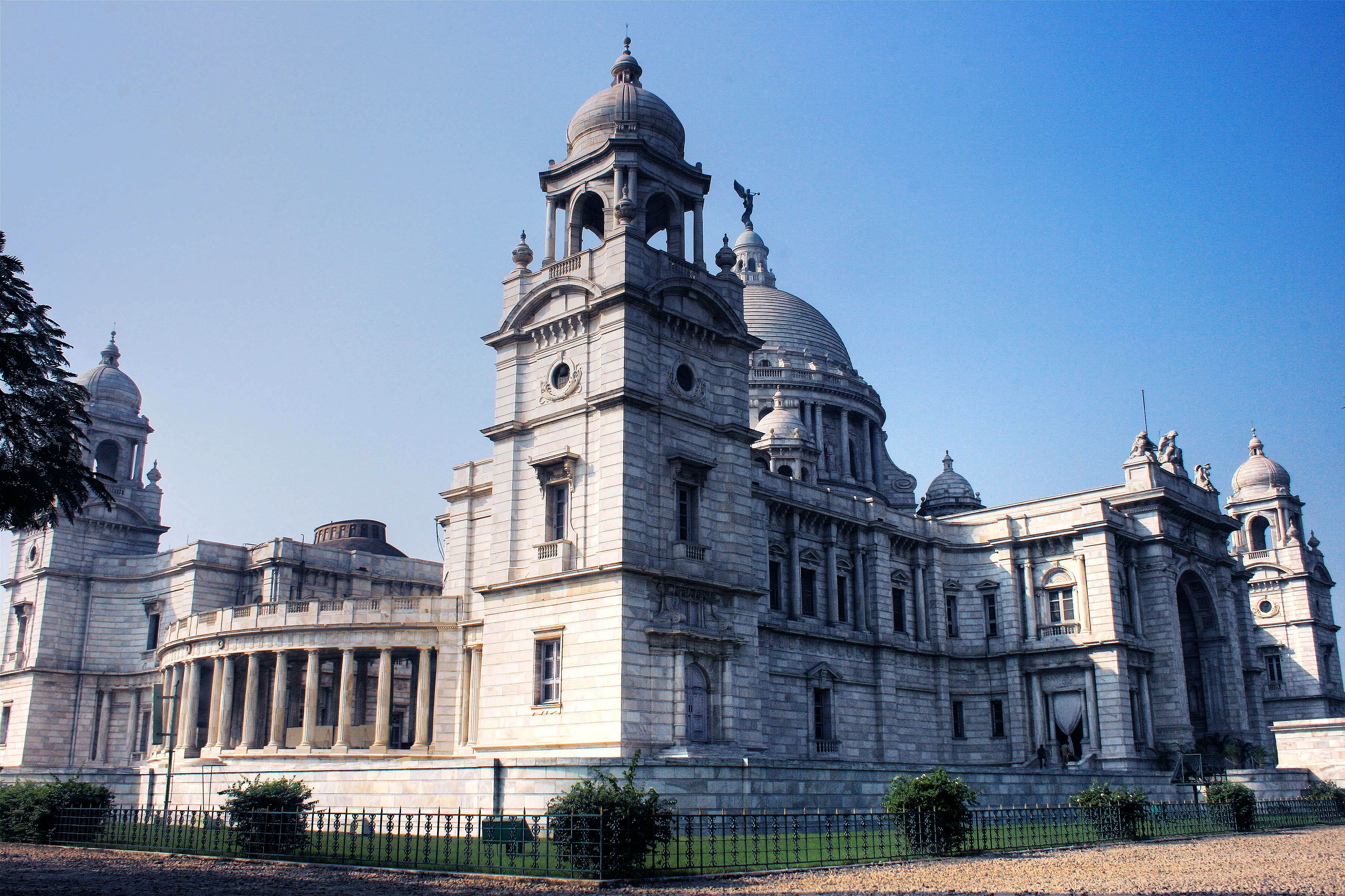 A view of Victoria Memorial Palace in Kolkata, India